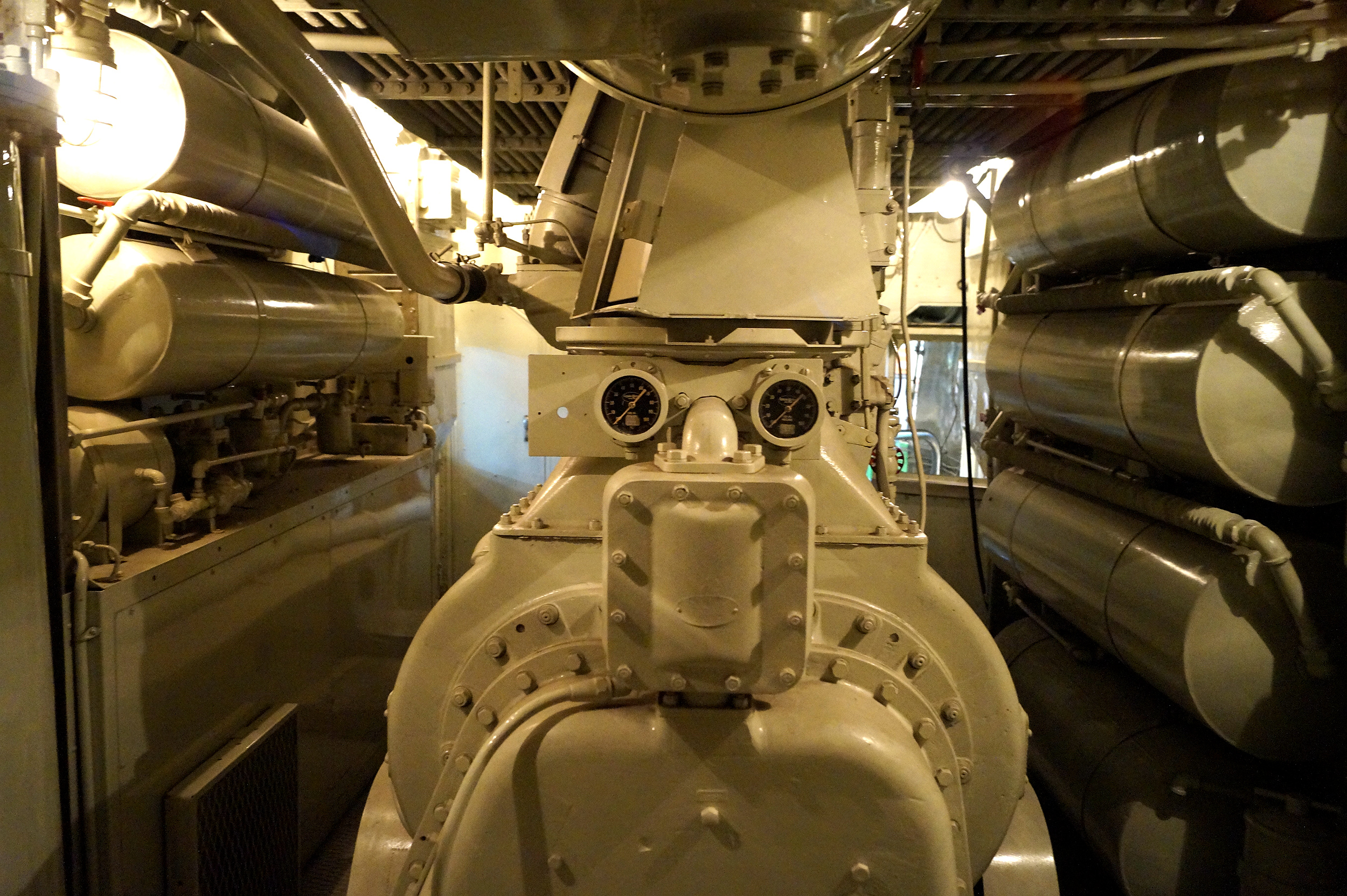 The engine room of CB&Q Pioneer Zephyr diesel train, showing a Winton 8-201A diesel engine.